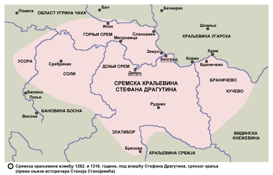 Kingdom of Syrmia from 1282 to 1316, ruled by Stefan Dragutin, Serb king (according to the book of historian Stanoje Stanojević).